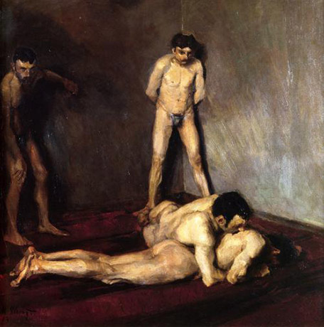 Wrestling School